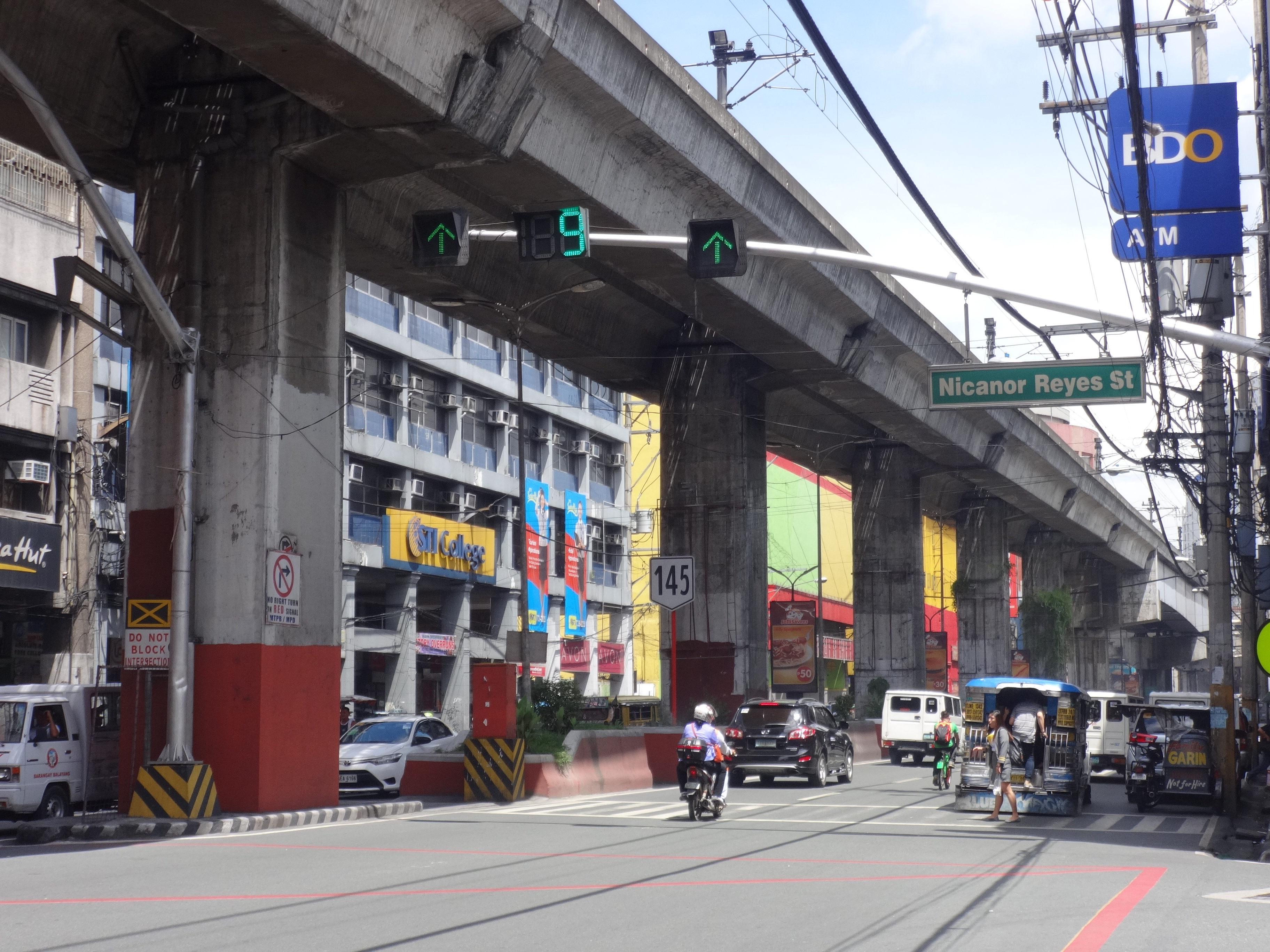 C.M. Recto Avenue corner Nicanor Reyes in Sampaloc, Manila